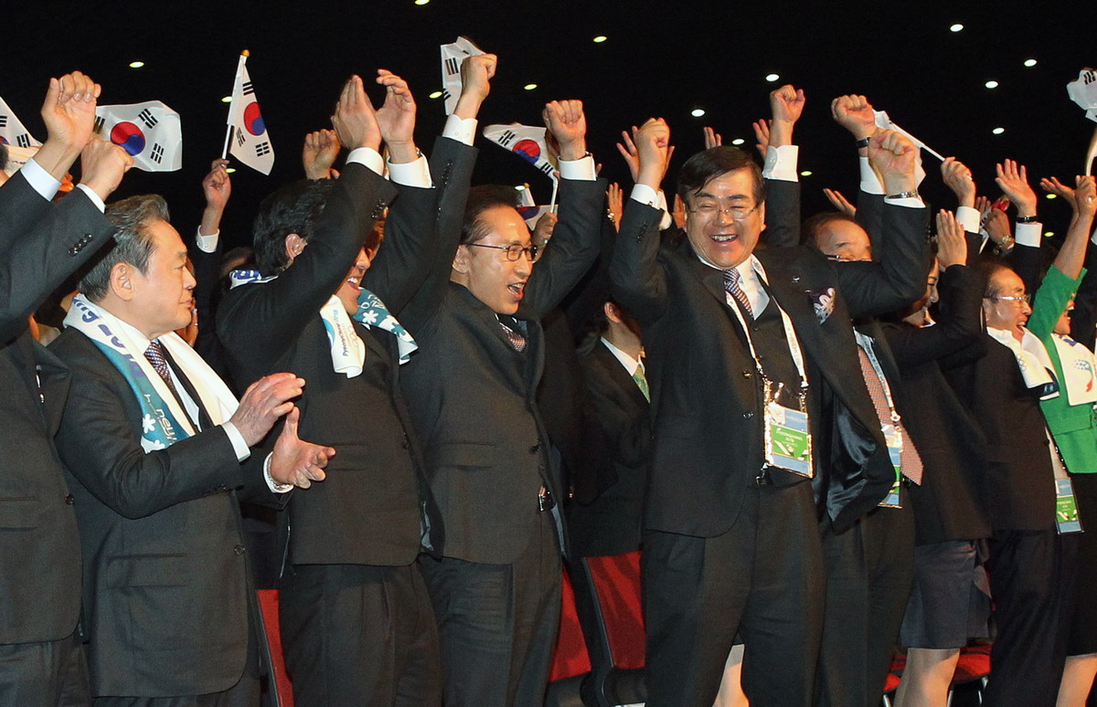 President Lee Myung-bak, members of the PyeongChang Bidding Committee and with a delegation of Pyeongchang residents cheer as Pyeongchang was selected as the Games' host at the IOC general assembly in Durban, South Africa. Pyeongchang will host the 2018 Winter Olympics after beating off Munich and Annecy as the IOC vote results are announced in Durban.